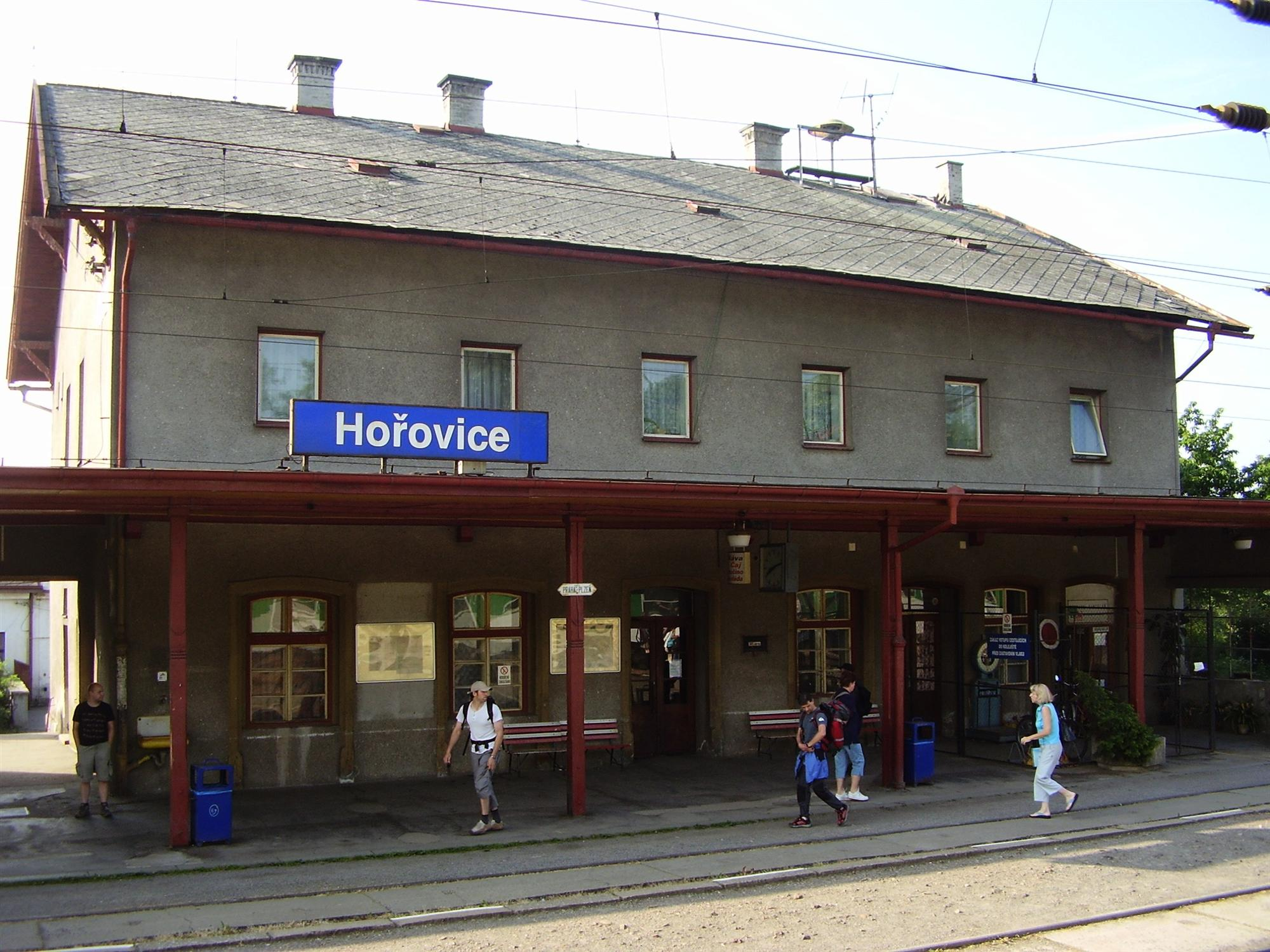 Train station in Hořovice, Beroun District